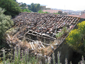 Aleister Crowley's Thélema Abbey in Cefalù, Sicily.